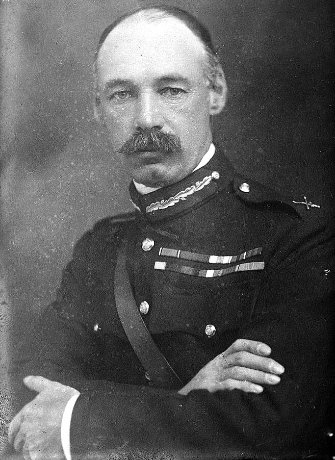 Henry Rawlinson, 1st Baron Rawlinson